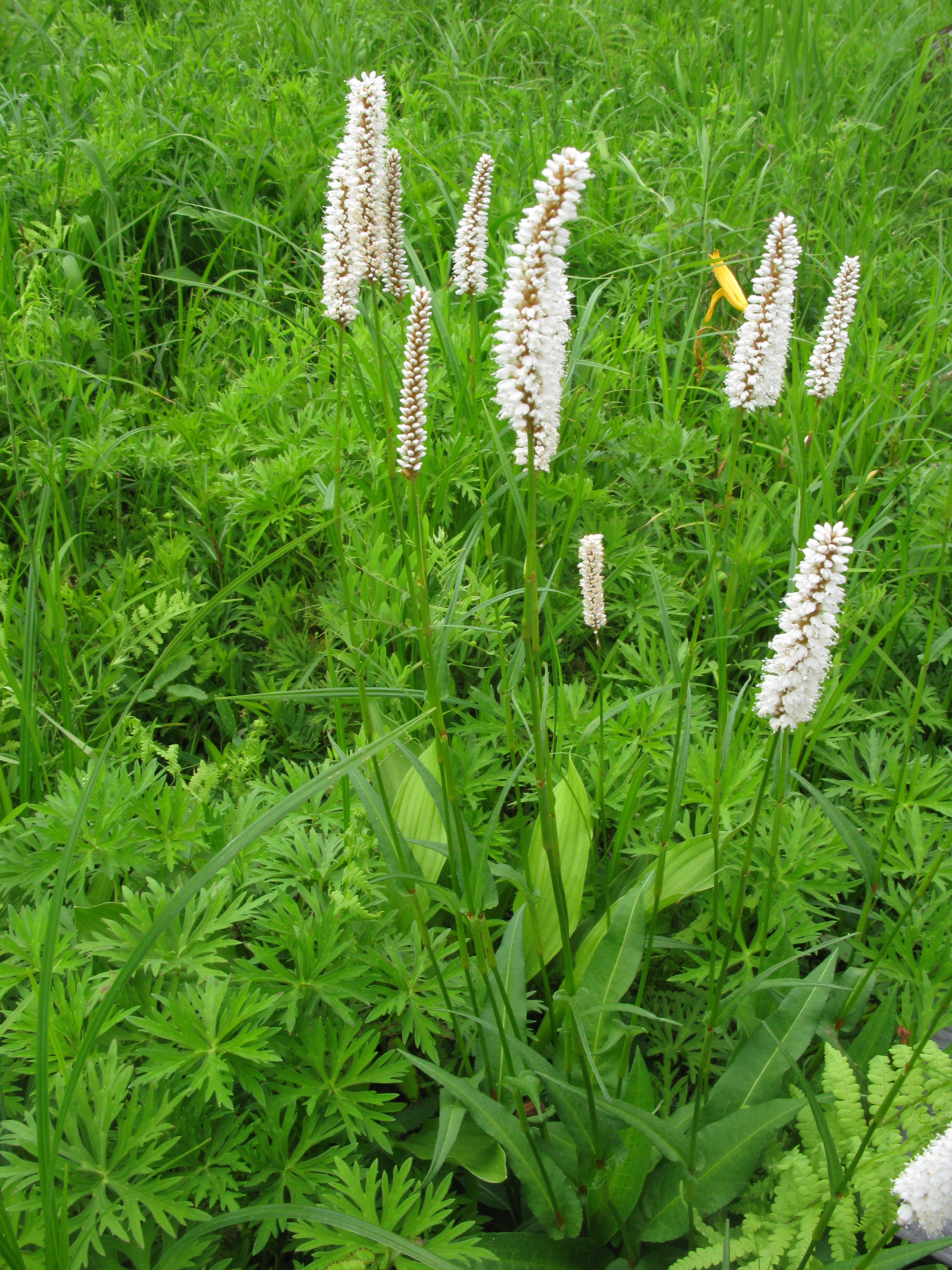 Bistorta officinalis — in the Hakone Botanical Garden of Wetlands, Kanagawa pref., Japan.